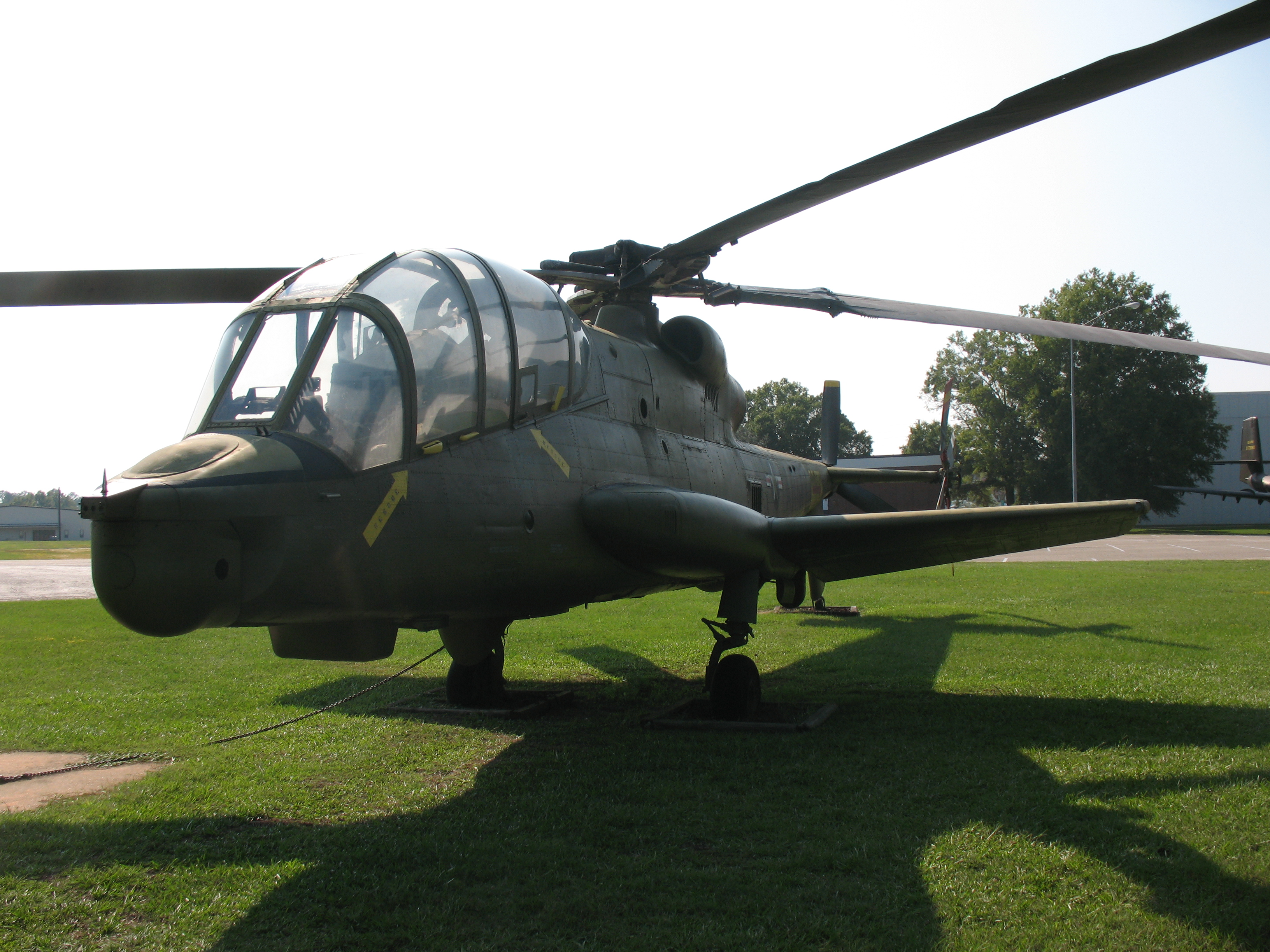 Design of the AH-56 "Cheyenne" began during the Vietnam War to replace the AH-1 Cobra, which was vulnerable to light antiaircraft fire and lacked agility. Because of cost overruns, delays, and changing Army requirements, the AH-56 never went into production. The AH-64 "Apache" eventually was chosen to fill the role for which the "Cheyenne" was developed. This is one of the ten prototypes built after Lockheed won the design for the Army's Advance Aerial Fire Support System (AAFSS)